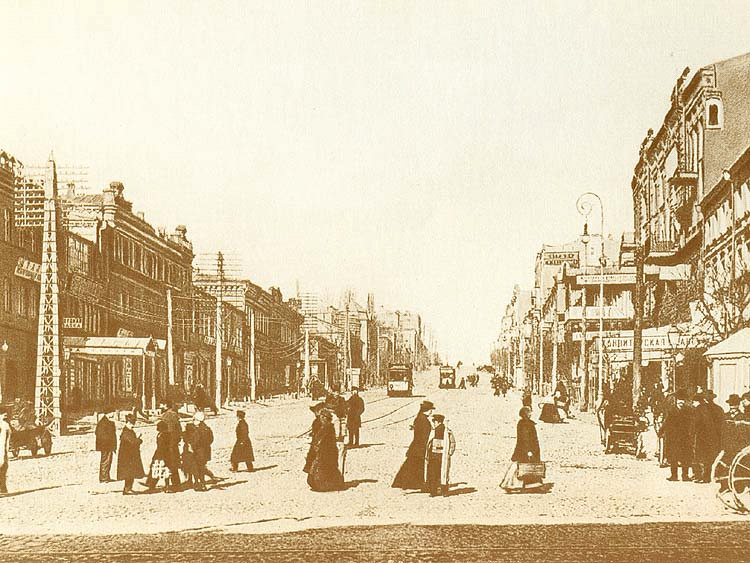 Kiev, view of Funduckleevska street